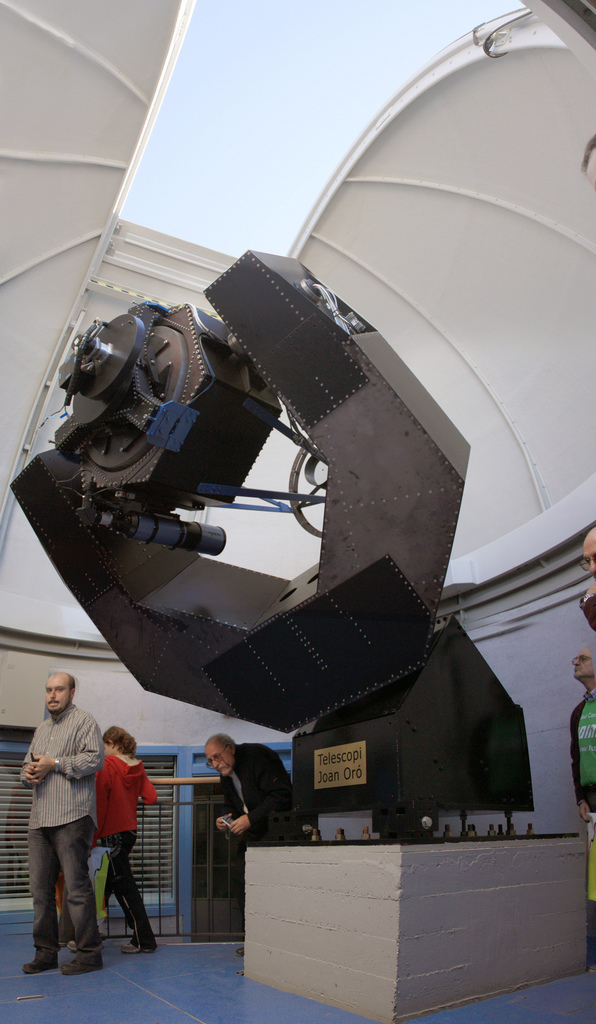 Telescopi Joan Oró (TJO) is a 1m-class telescope working in a completely unattended manner. 3-image composite... I know it could be better, but I'm still learning how this camera works...